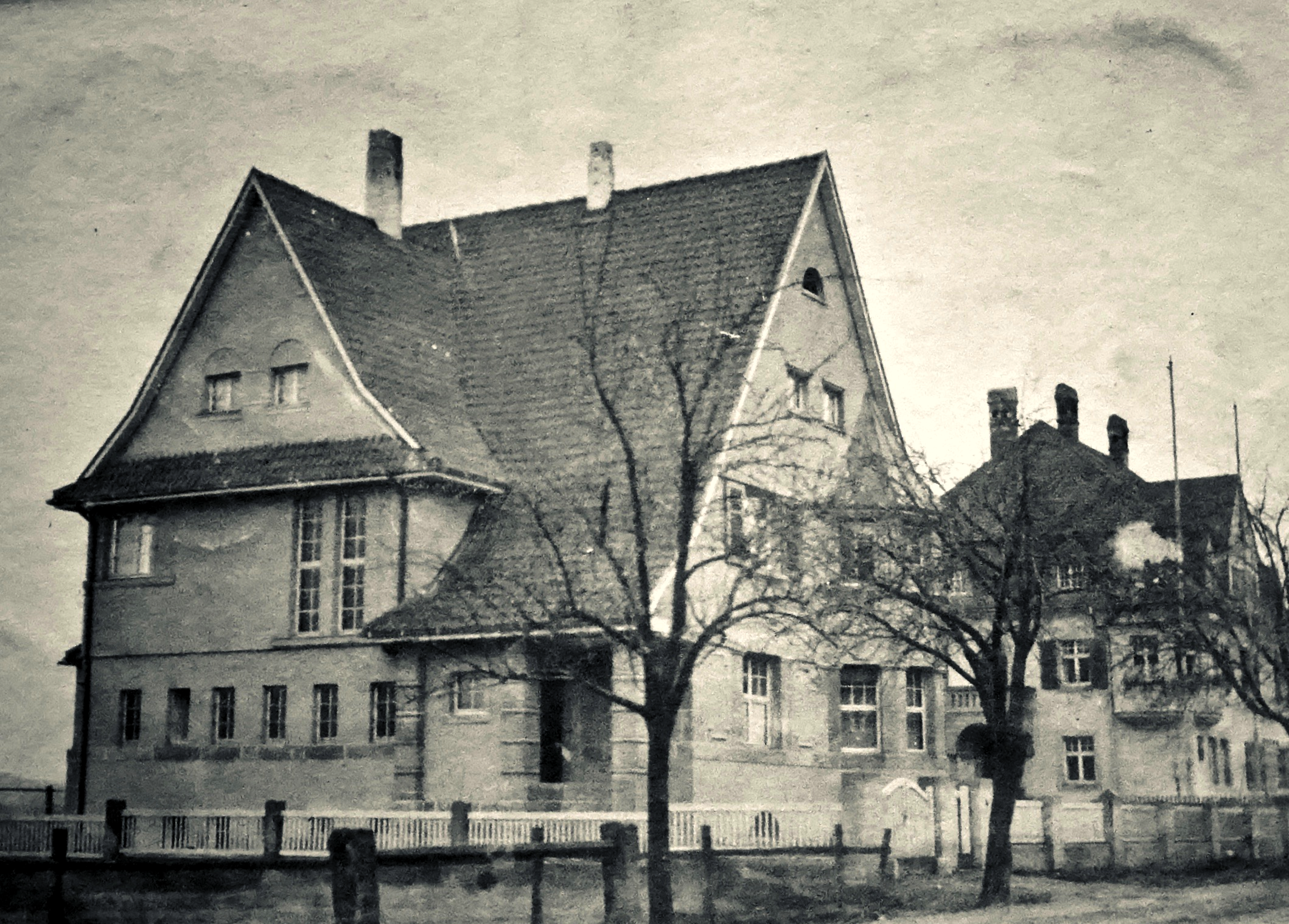 Villa "Sonnenhaus" (Solar House) of Otto Bamberger (1885–1933) in Lichtenfels, Upper Franconia, Bavaria, Germany, erected in 1914 by architect August Berger (1860–1947) at Kronacher Strasse 19, during Nazi time named Adolf-Hitler-Strasse, after 1937 numbered as 21